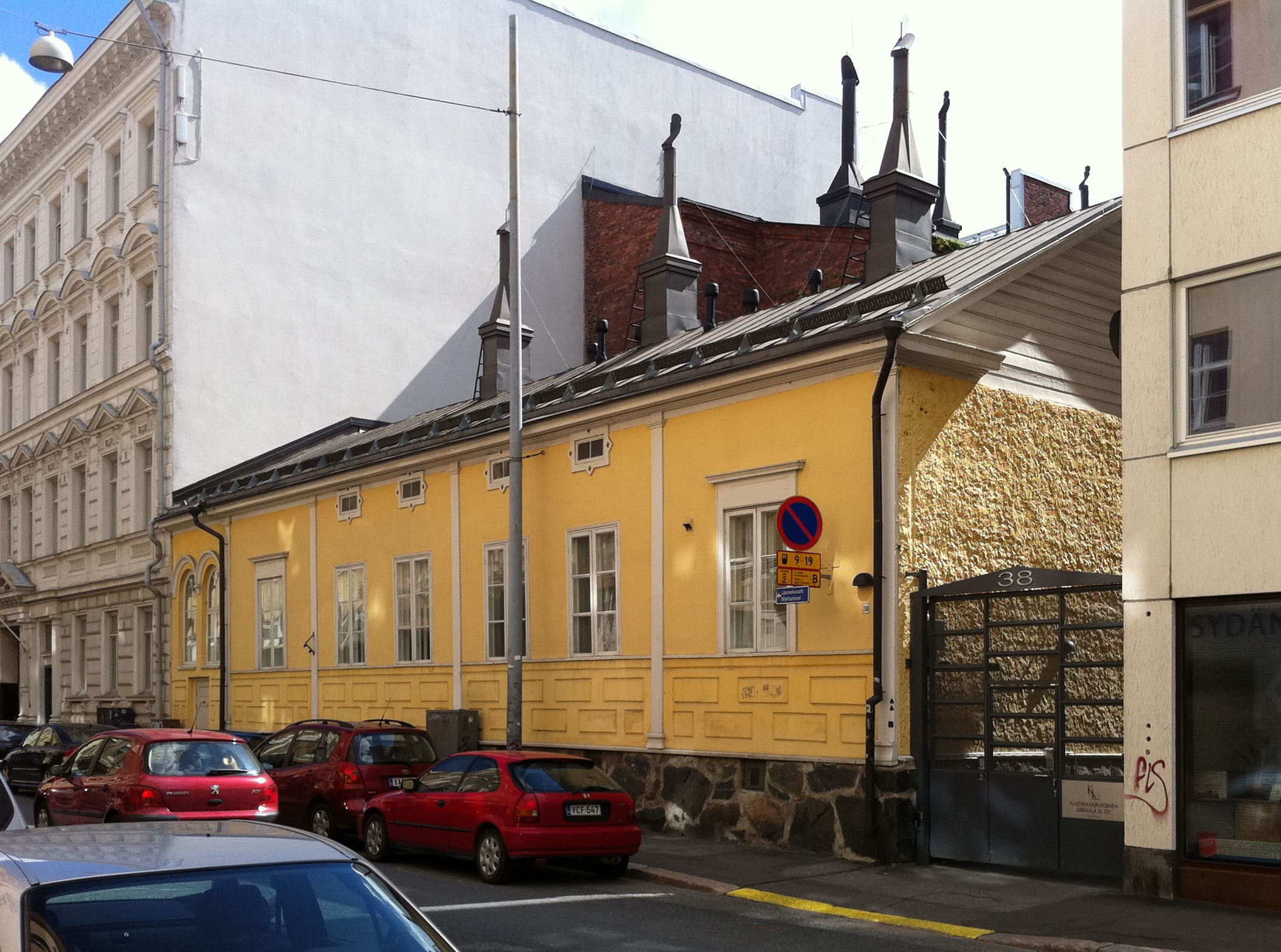 Uudenmaankatu 38, Helsinki